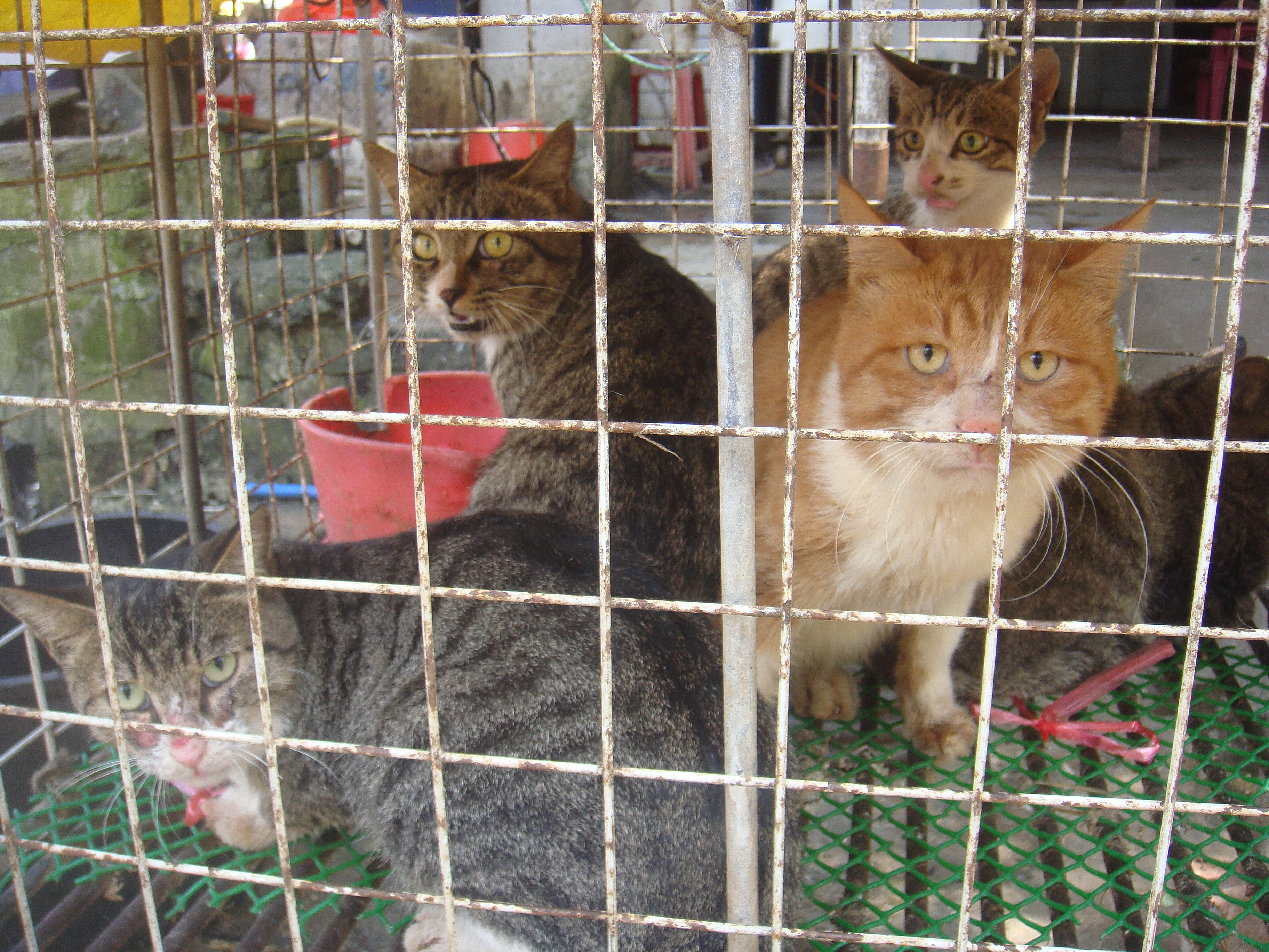 Cats at a cat meat restaurant in East Asia in October 2017. The owner said the cats were the equivalent of around $4.20 USD per pound or around $20.00 USD per cat. The cat is made into a hotpot and sold as "Dragon, Tiger and Phoenix Hotpot".